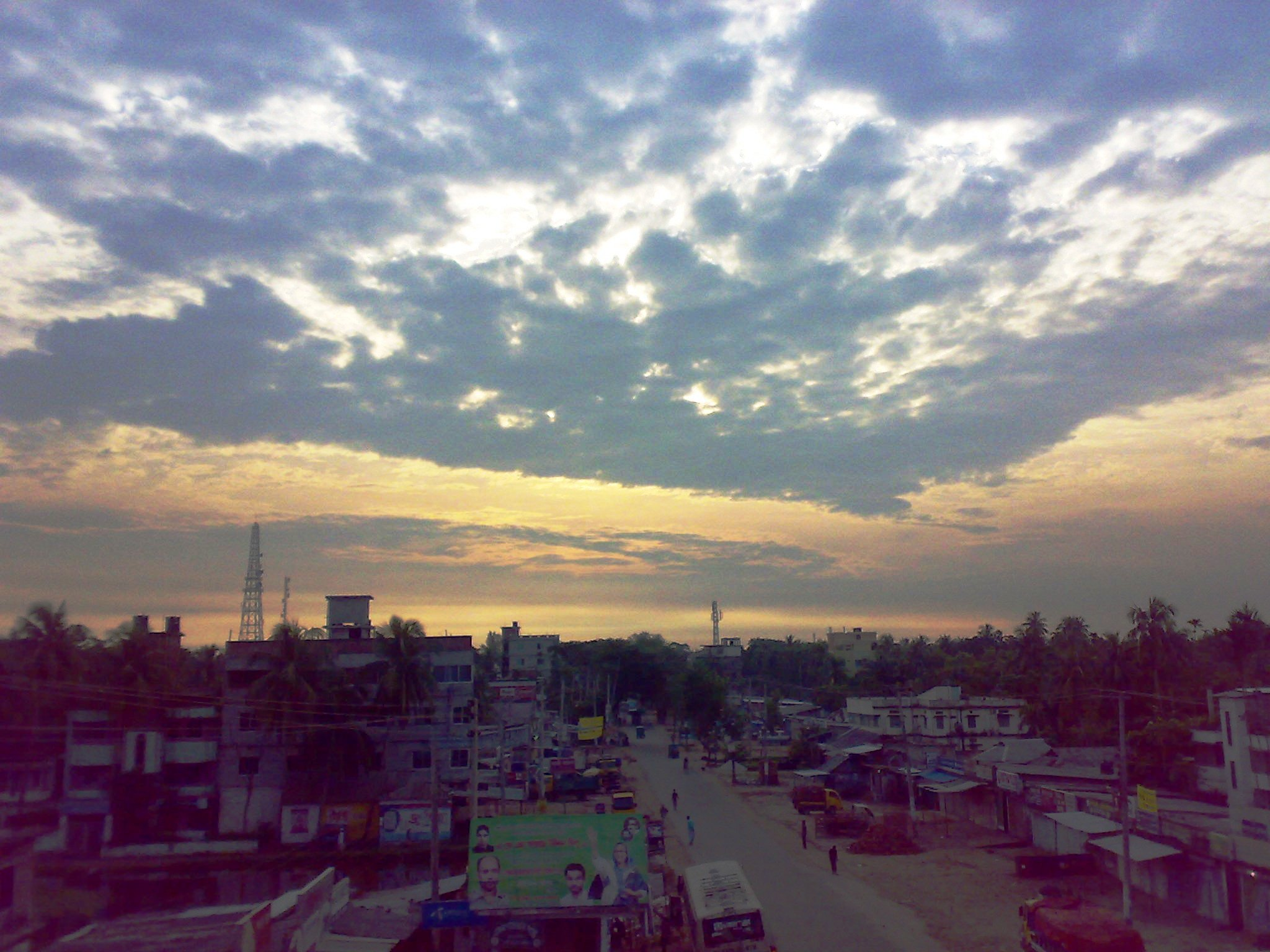 This photo was taken by me. Near Uttar Tehmony.